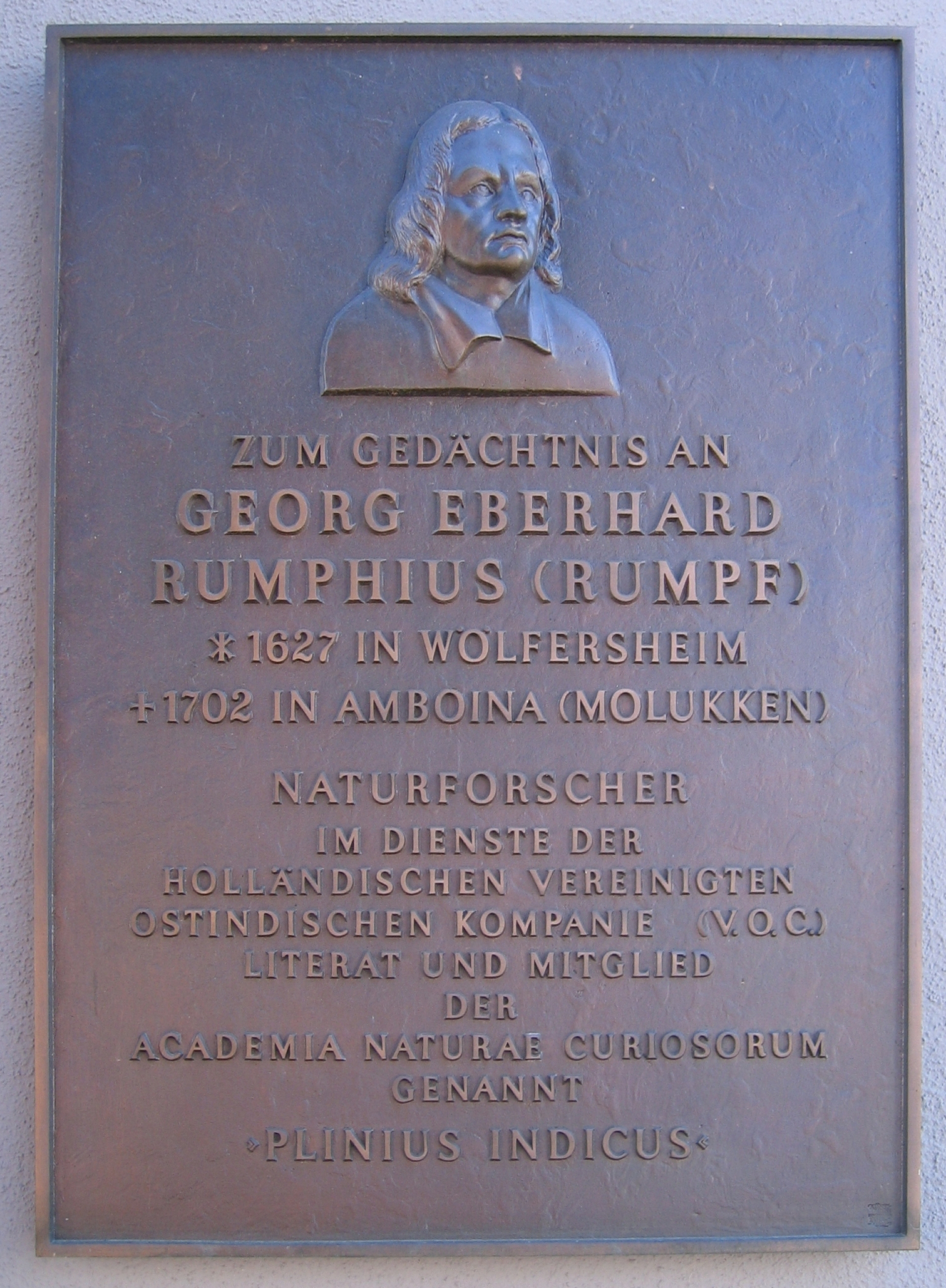 Sign about Georg Eberhard Rumpfius in Wölfersheim.